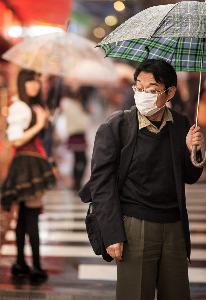 Japanese girl and salaryman at Akihabara